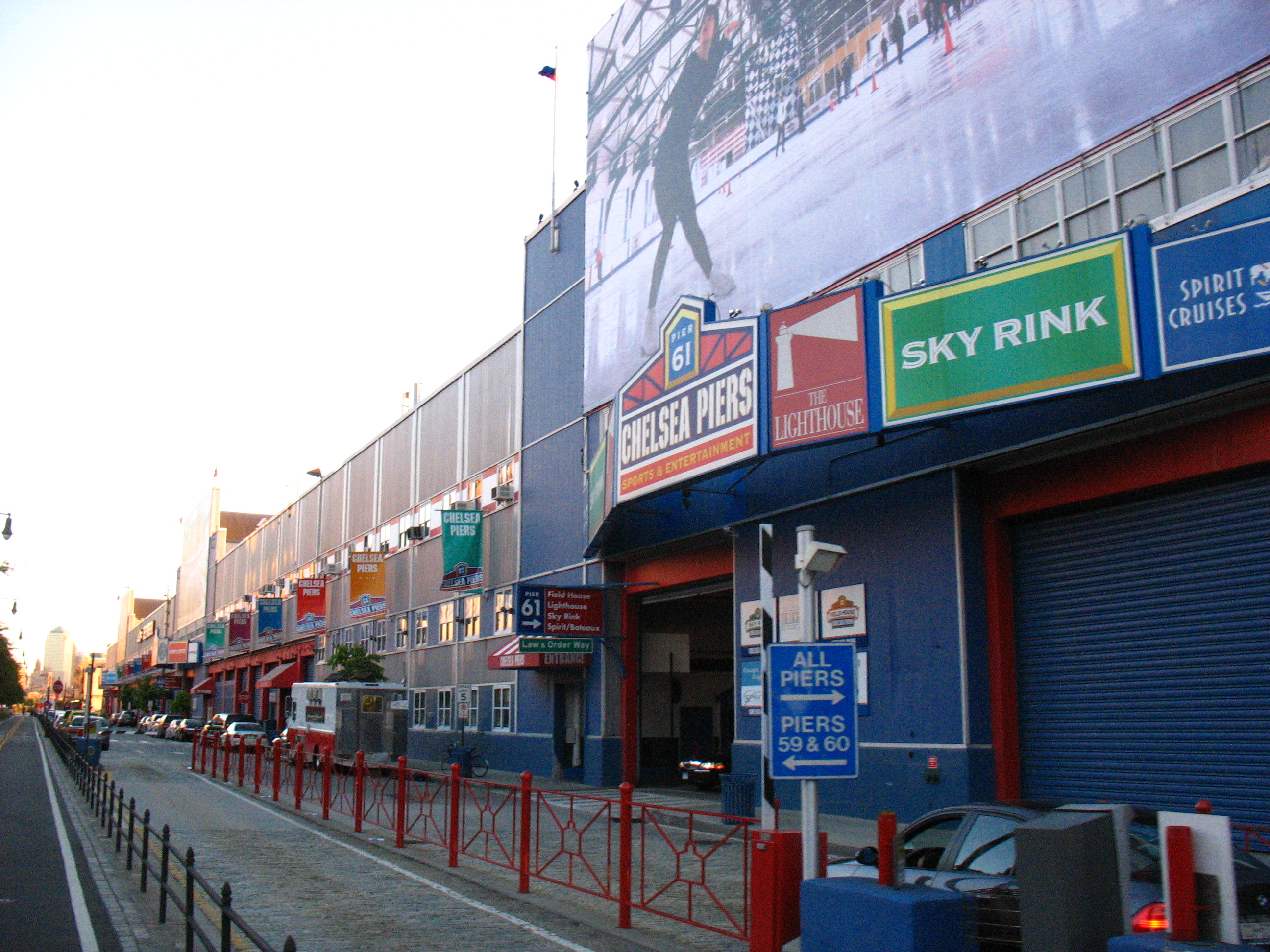 Chelsea Piers